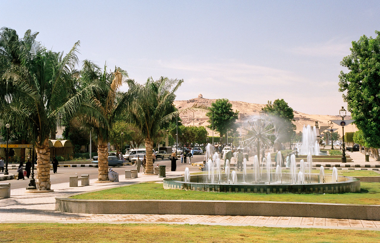 View along the street and park in front of railway station in Aswan, Egypt.